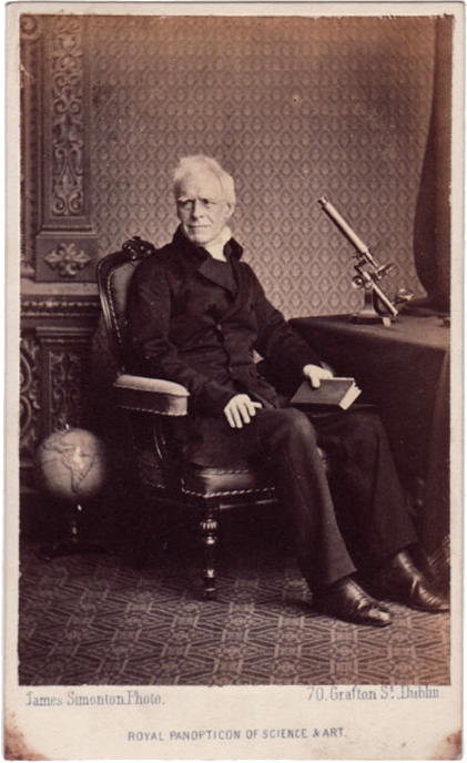 Carte de visite of John Thomas Romney Robinson